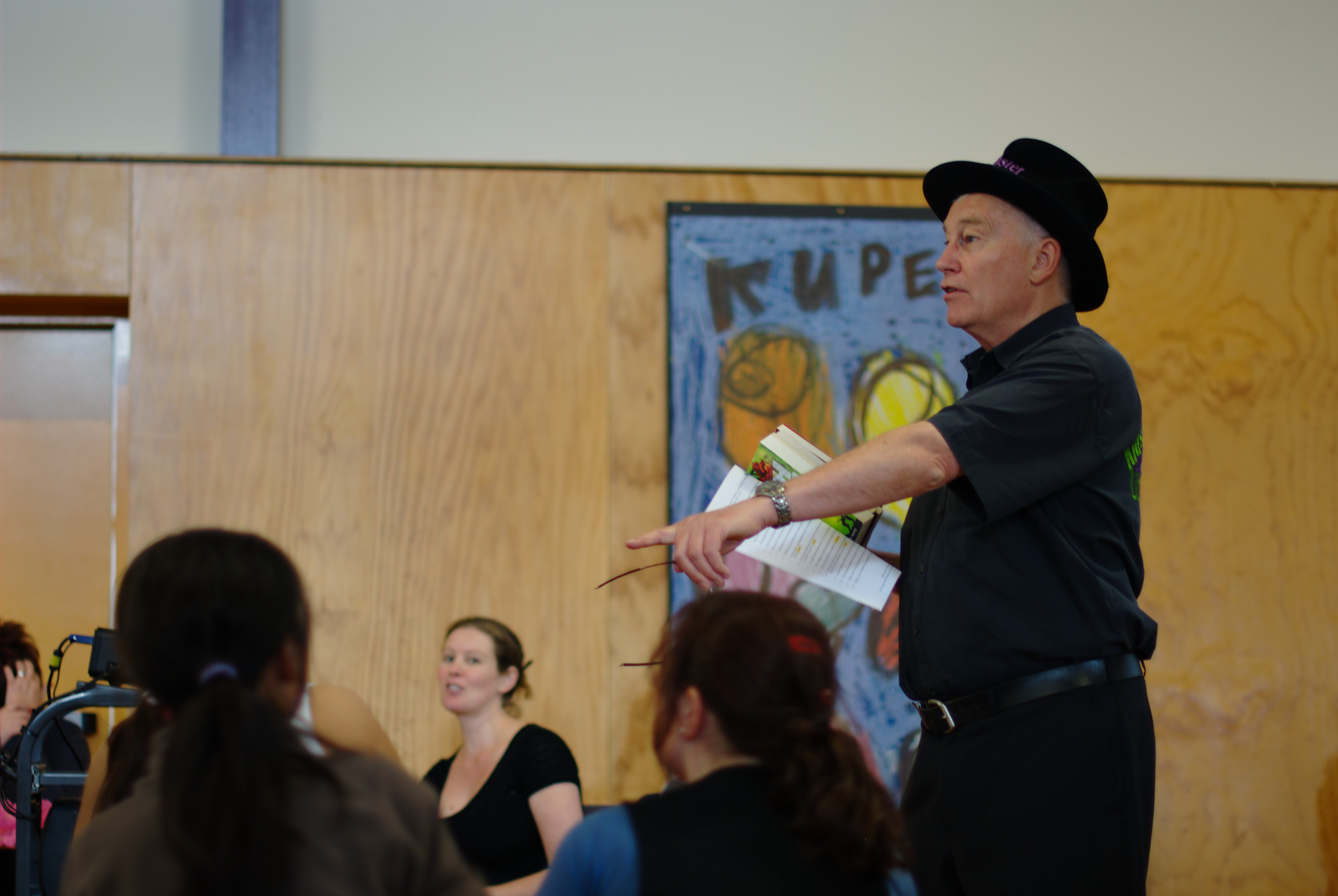 Wayne Mills awards the points to the winners of a sudden-death playoff during the Wellington Region Kids' LitQuiz on 30th April 2010.